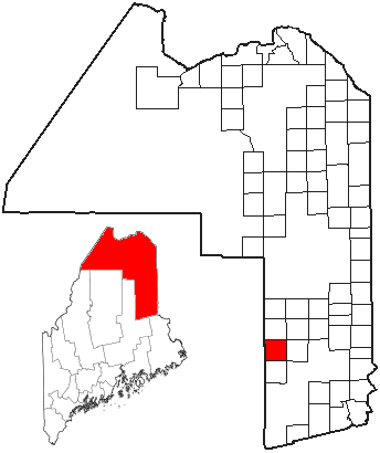 Adapted from U.S. Census Bureau maps (American FactFinder) and Wikipedia's ME county maps by Bumm13.